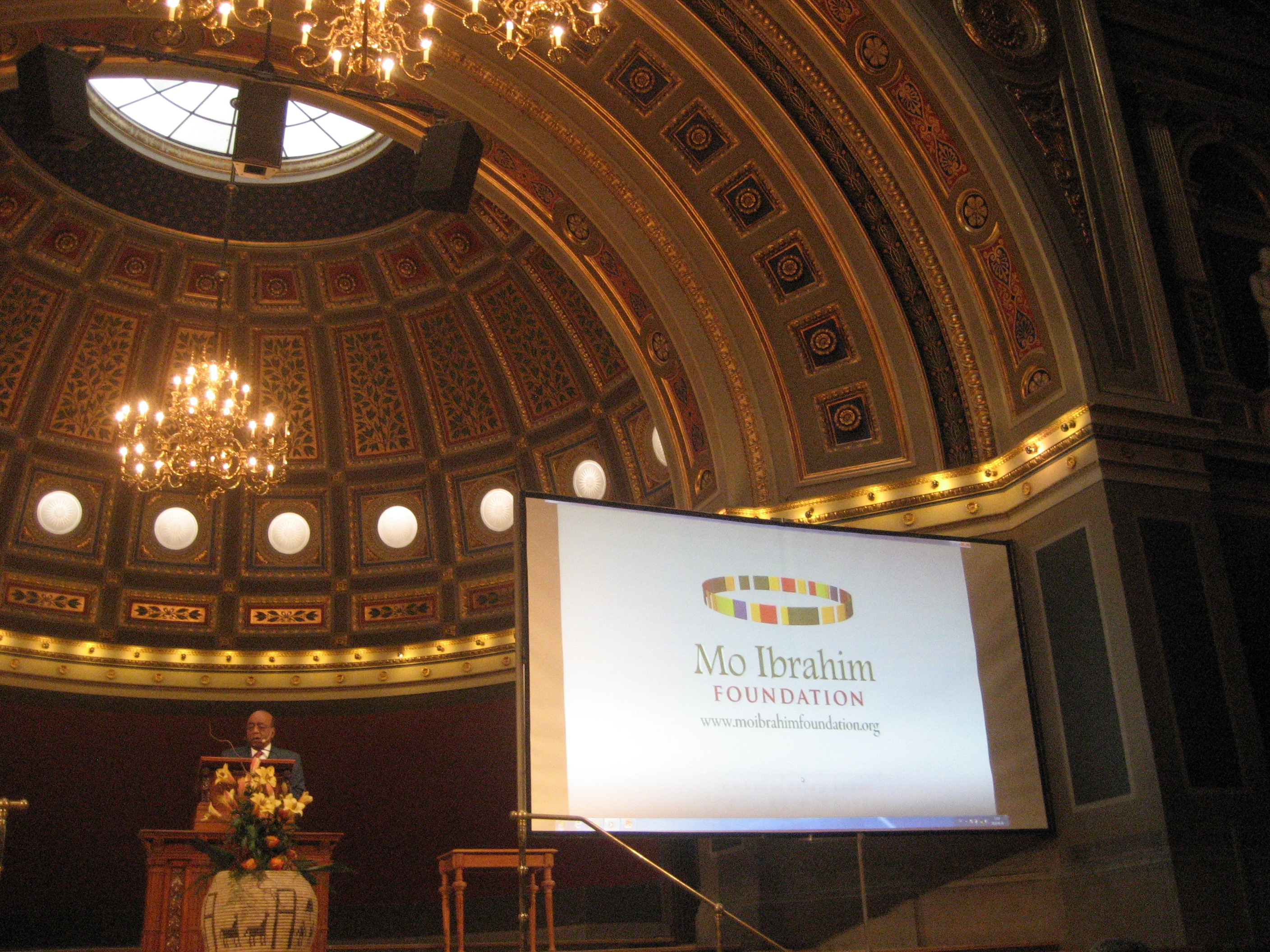 Mo Ibrahim in Grand Auditiorium, Uppsala University (Sweden), speaking during the Nordic Africa Days, Sept. 2014